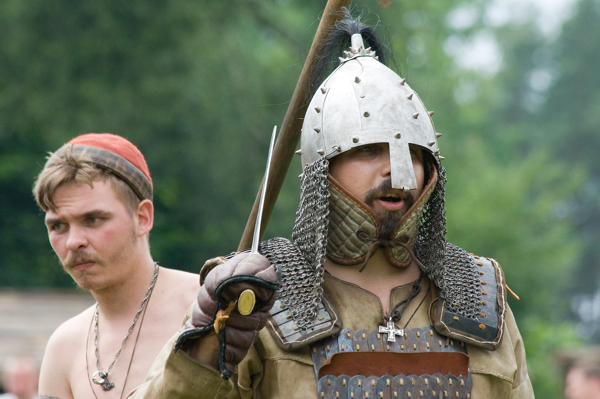 Medieval fights during International Festival of Experimental Archaeology, 5-7 July, 2008, Kernavė, Lithuania